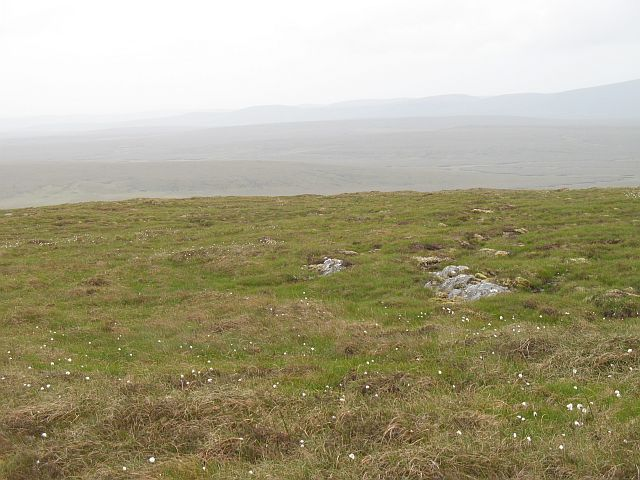 Cnoc an Liath-bhaid Mhòir View across the summit area of Cnoc an Liath-bhaid Mhòir towards Ben Armine, across a large expanse of blanket bog at the head of Strath Skinsdale.